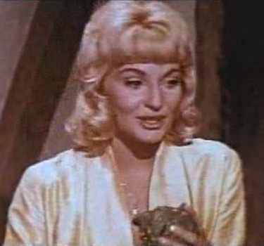 Cropped screenshot of Diane Cilento from the trailer for the film I Thank a Fool